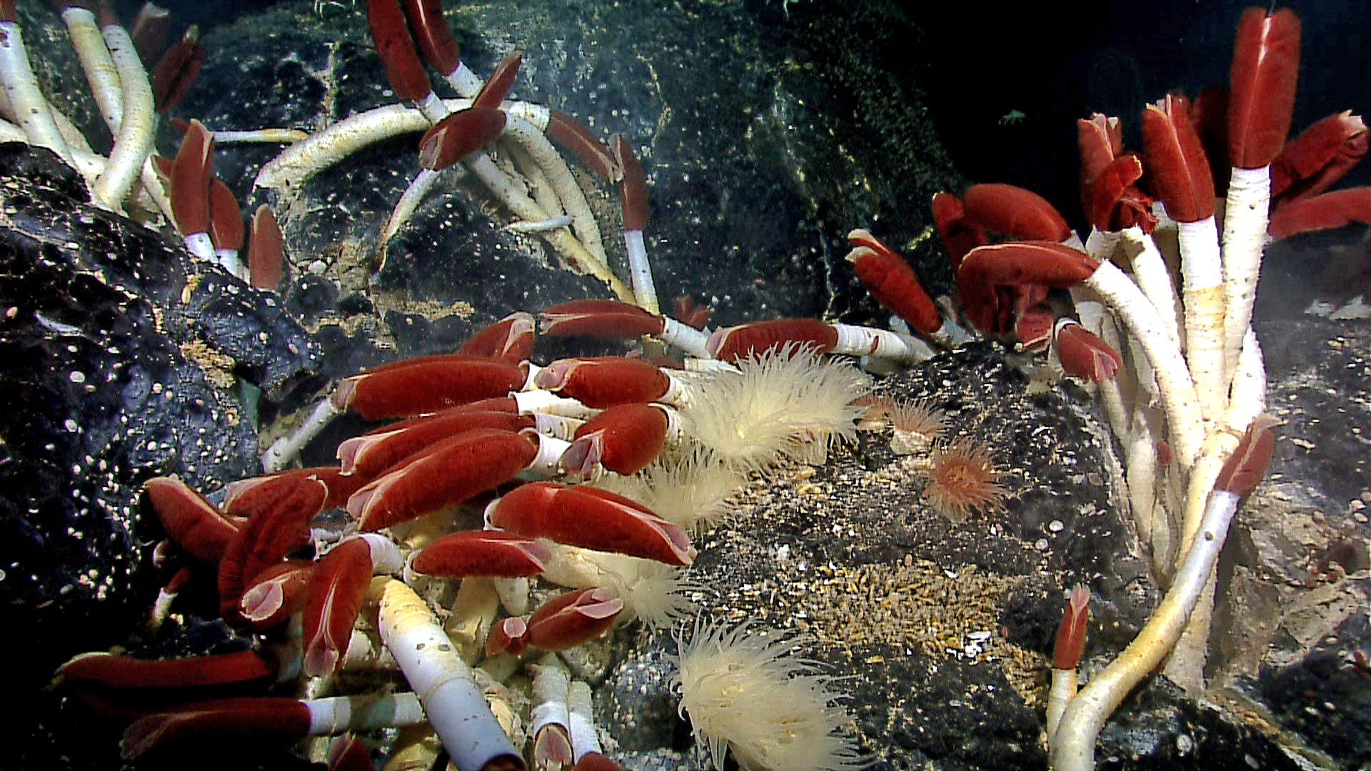 Photo of one of the largest concentrations of Riftia pachyptila observed, with anemones and mussels colonizing in close proximity. From the 2011 NOAA Galapagos Rift Expedition. The original NOAA image has been modified by increasing brightness.